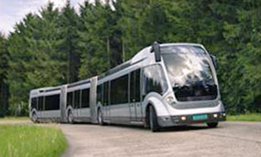 APTS Phileas 24 bi-articulated bus in Europe.